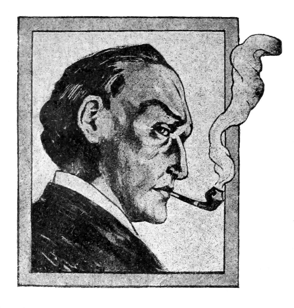 Portrait of Sherlock Holmes.